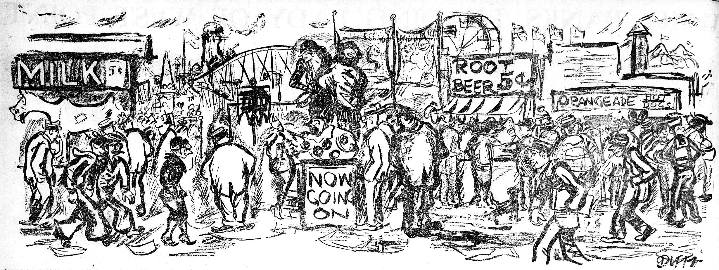 Illustration by Edmund Duffy